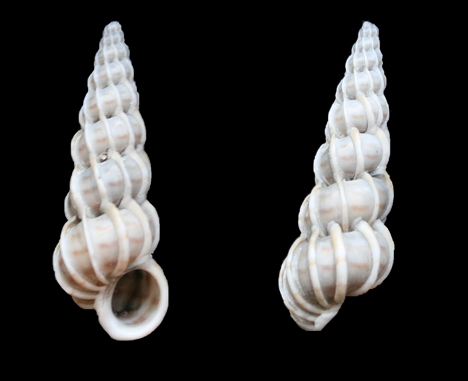 Epitonium clathrus .